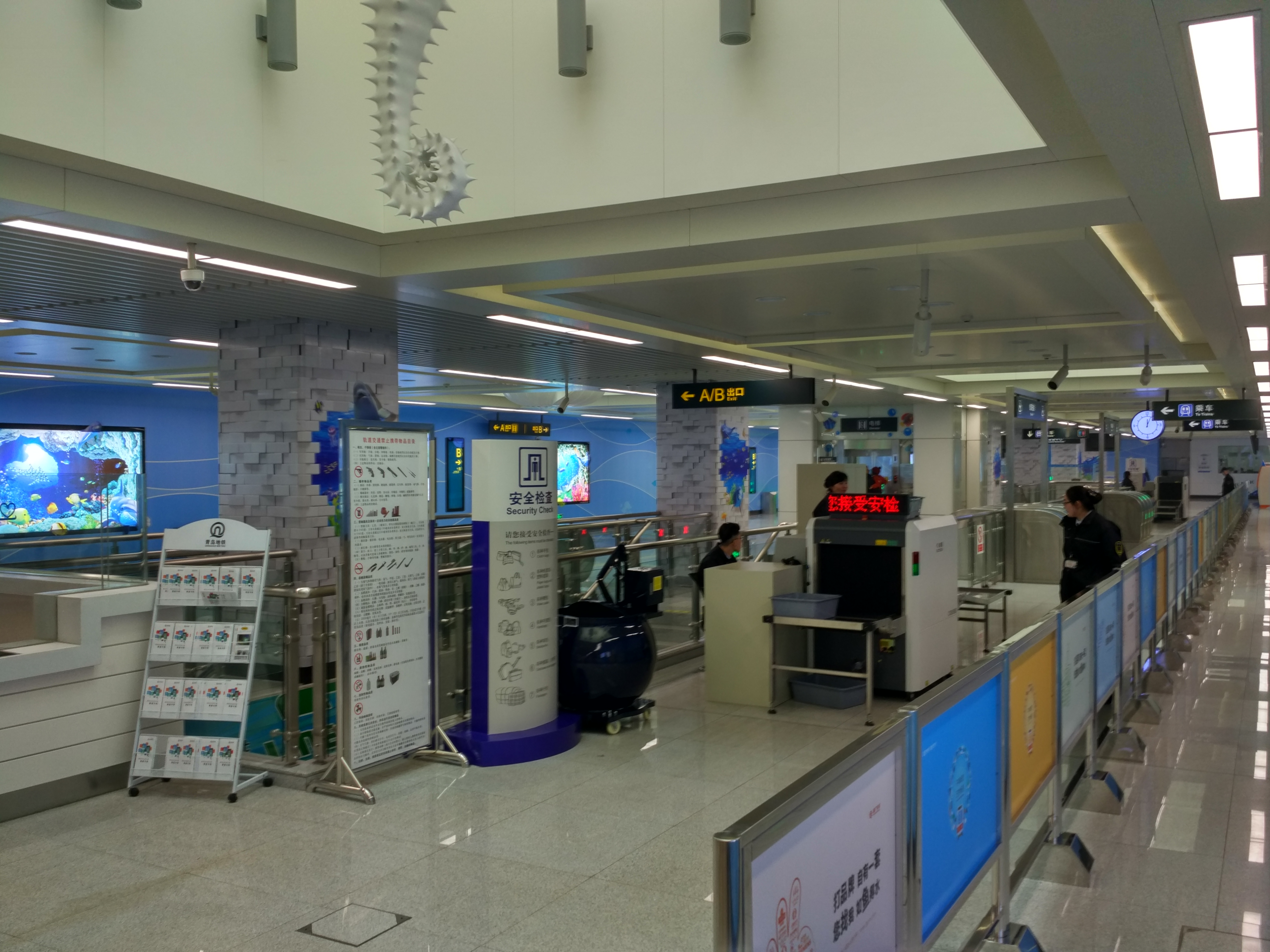 Concourse of Taipingjiao Park Station, Line 3 of Qingdao Metro